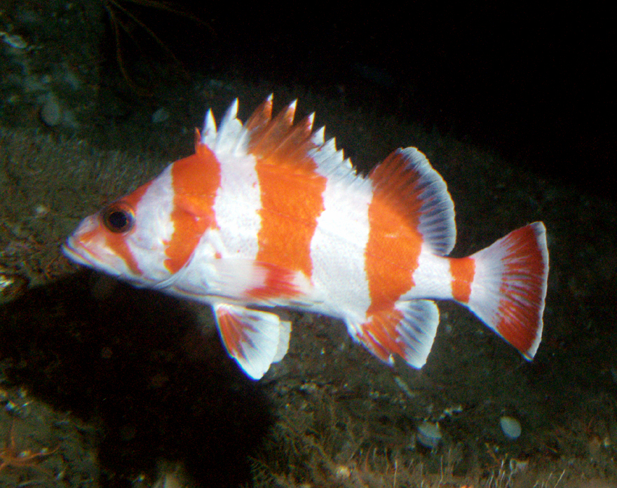 Flag rockfish (Sebastes rubrivinctus) observed off Point Sur during a sanctuary seafloor monitoring survey using the Delta submersible.